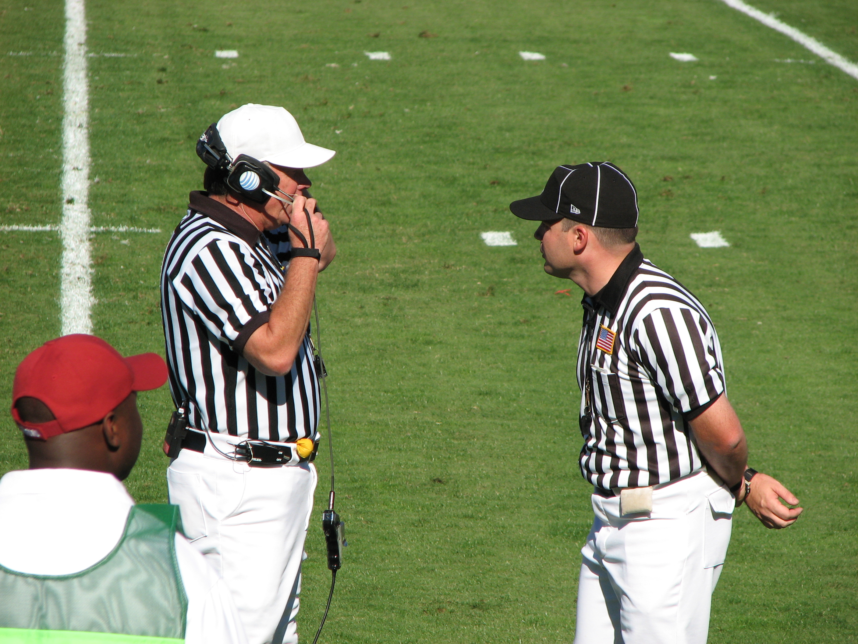 The head referee (left) discussing an instant replay at an American College Football game in 2007.Stanford Official Review